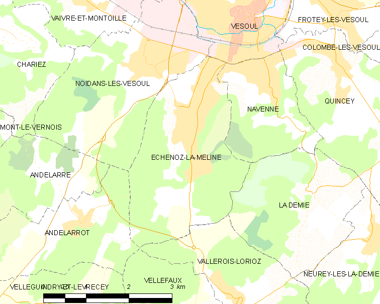 Map of French municipality